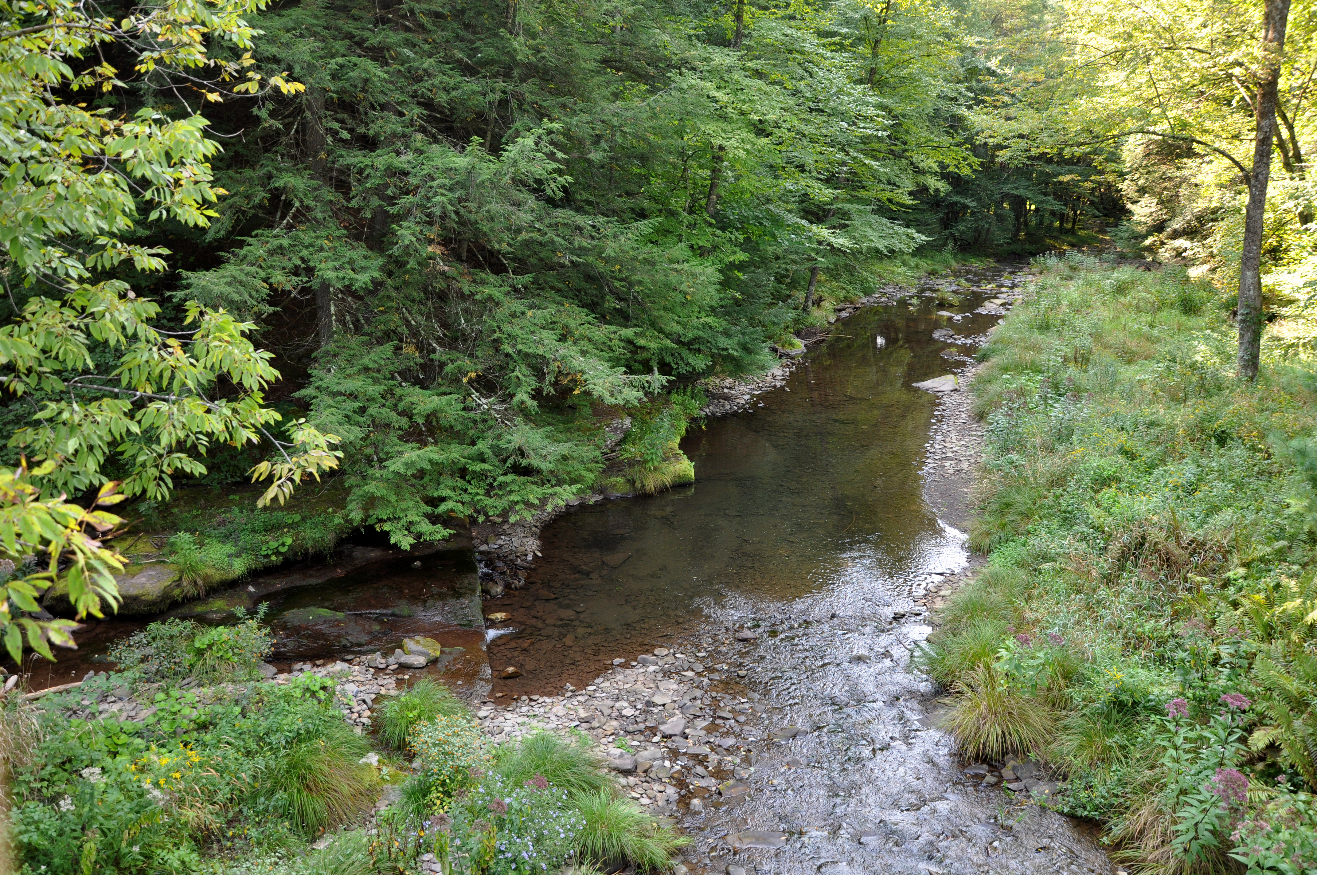 Cedar Run — at its confluence with Mine Hole Run (entering from left), in the Allegheny Mountains, in the U.S. state of Pennsylvania. Looking downstream.